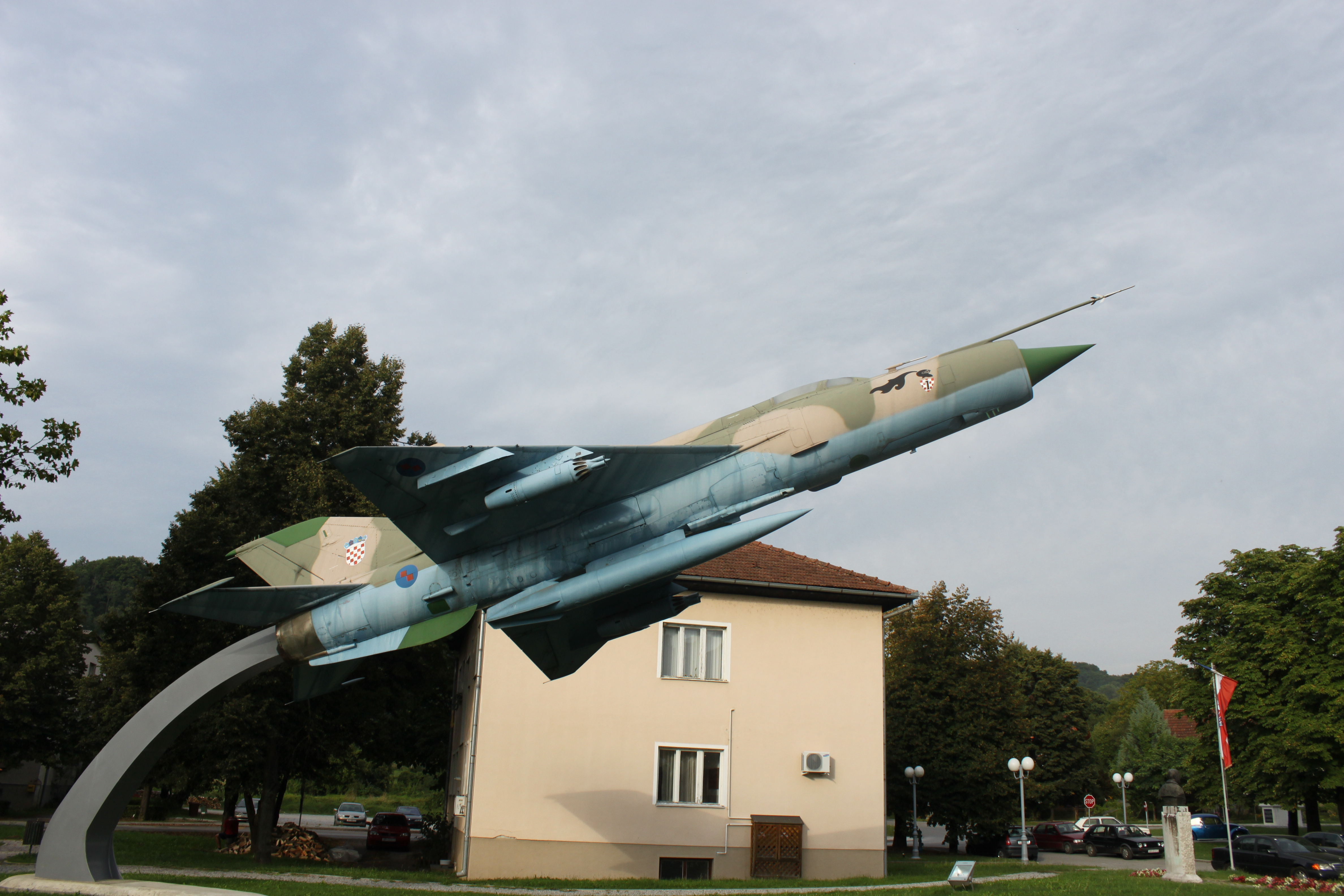 On October 25, 1991 Rudolf Perešin, a pilot with the Yugoslav AF defected with his MiG-21 bis from Bihać, Bosnia, to Klagenfurt Austria to prevent his jet being used against Croats by the Bosnian Serbs. To commemorate the event this MiG is preserved in the place of his birth, Gornja Stubica.